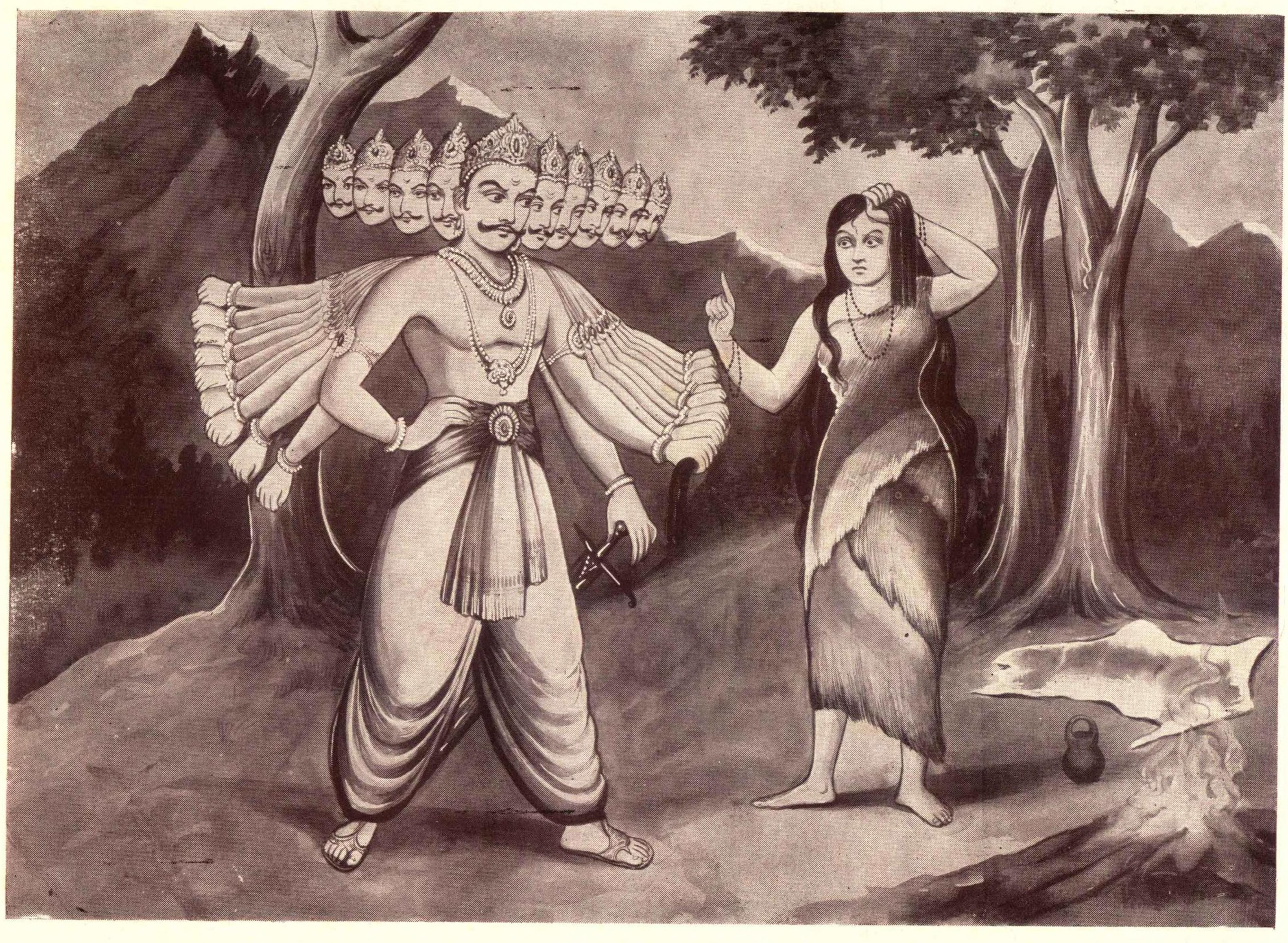 Valmiki Ramayan I Gita Press Gorakhpur by MahaMuni Usage Topics Sanskrit, "महामुनि का संग्रह", "Pratiek-Lucknow" Collection opensource Language Sanskrit Indological Books , 'Valmiki Ramayan I - Gita Press Gorakhpur.pdf' Identifier ValmikiRamayanIGitaPressGorakhpur Identifier-ark ark:/13960/t3908c40s Ocr language not currently OCRable Ppi 600 Scanner Internet Archive HTML5 Uploader 1.6.3